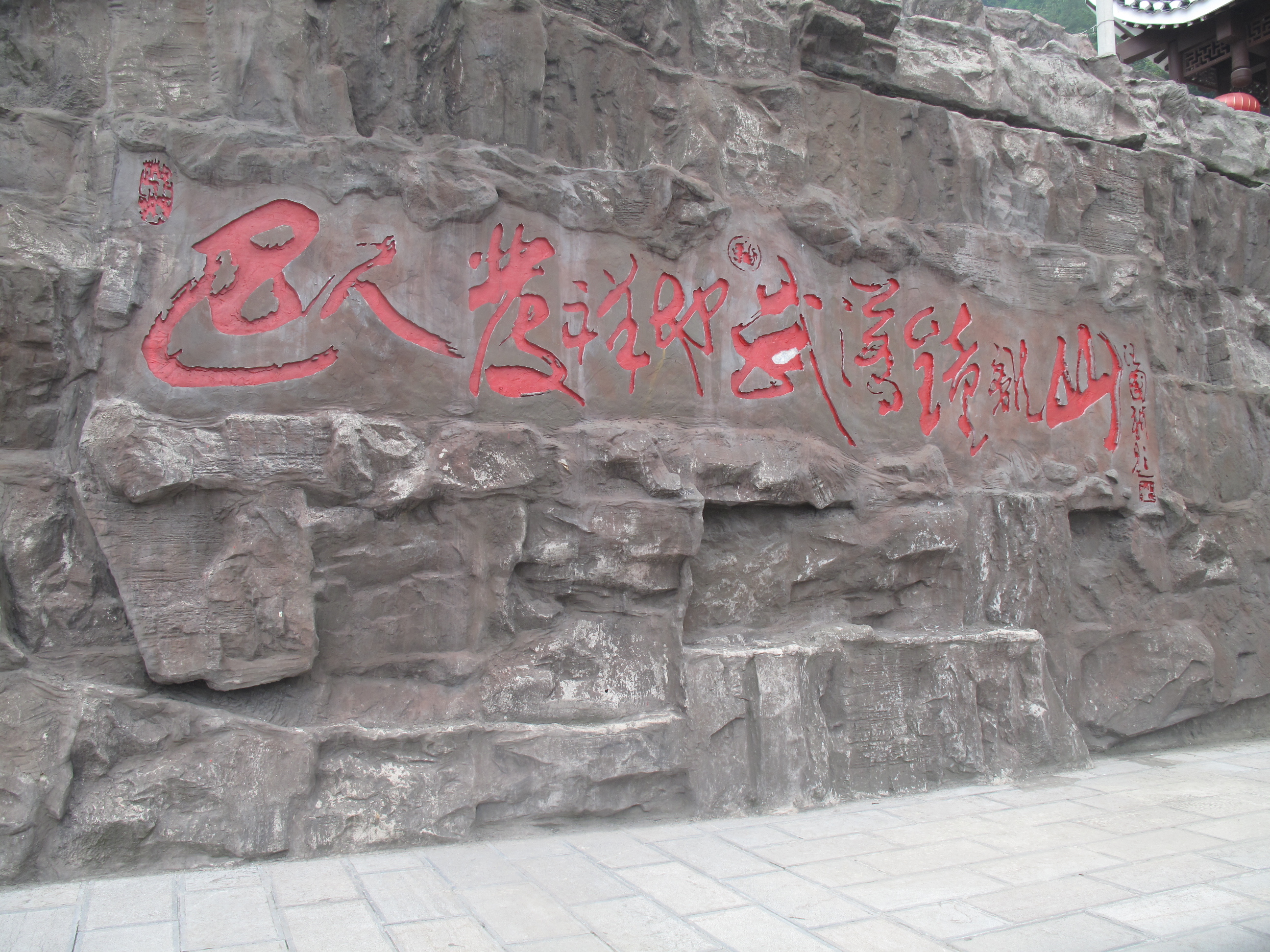 Hubei Changyang Tujia Autonomous County Qingjiang Gallery Wuluozhongli mountain engrave,Wangguoxin inscribed"Ba people birthplace Wuluozhongli mountain"(巴人发祥地武落钟离山)